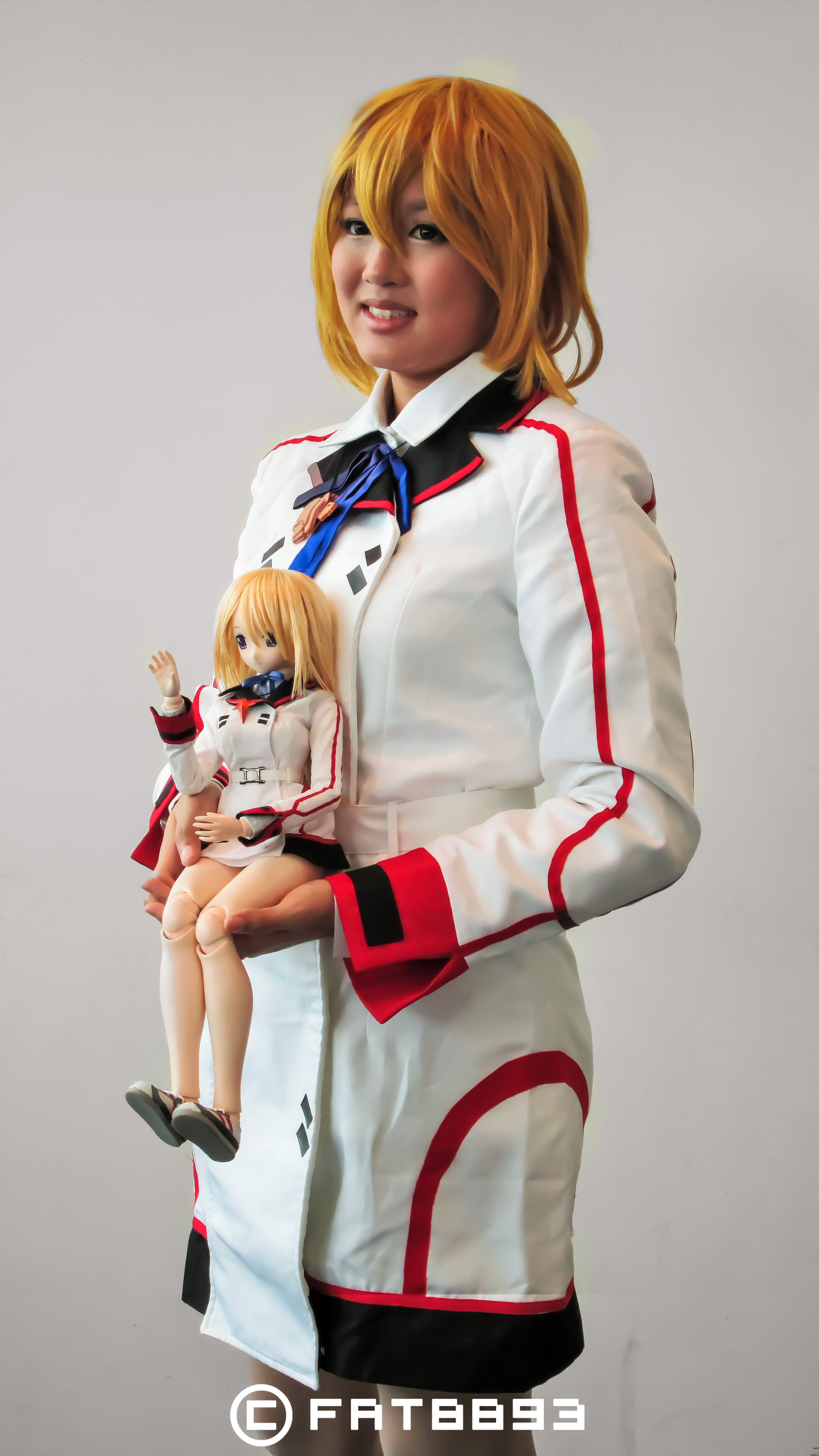 中文（台灣）: AniManGaki 2014，《IS〈Infinite Stratos〉》夏洛特·迪努亞cosplayer。